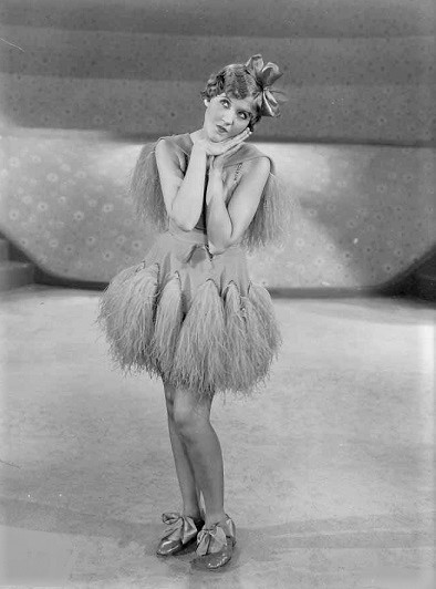 Zelma O'Neal in "Follow Thru"